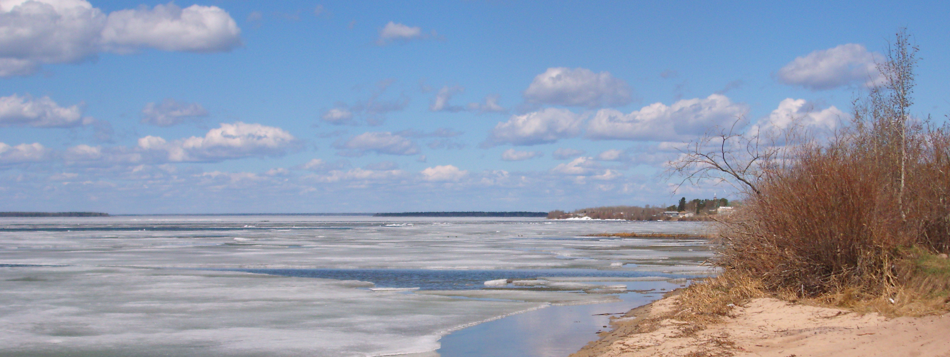 Ice break-up on Lac La Loche May 13, 2013 viewed north from the Poplar Point sub-division. The steeple of the La Loche Mission church can be seen.